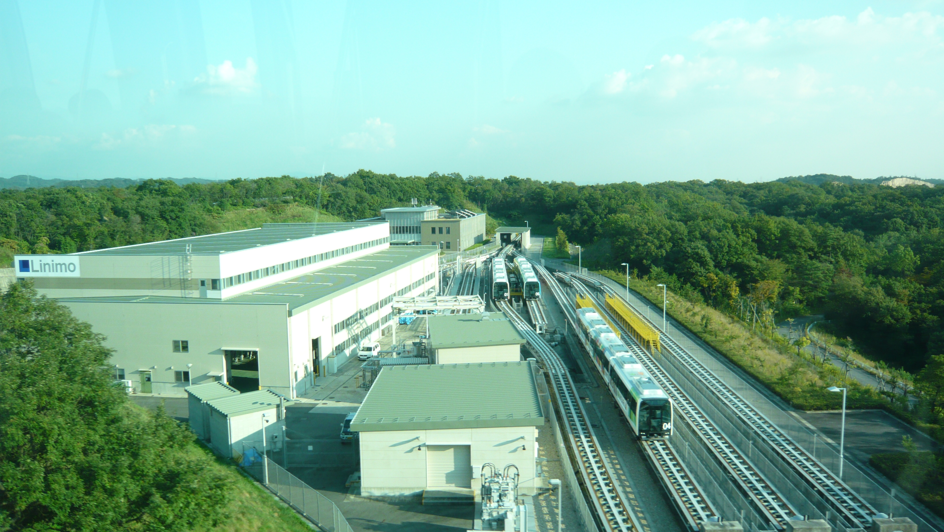 the head office and the rail yard of Aichi Rapid Transit Co., Ltd.